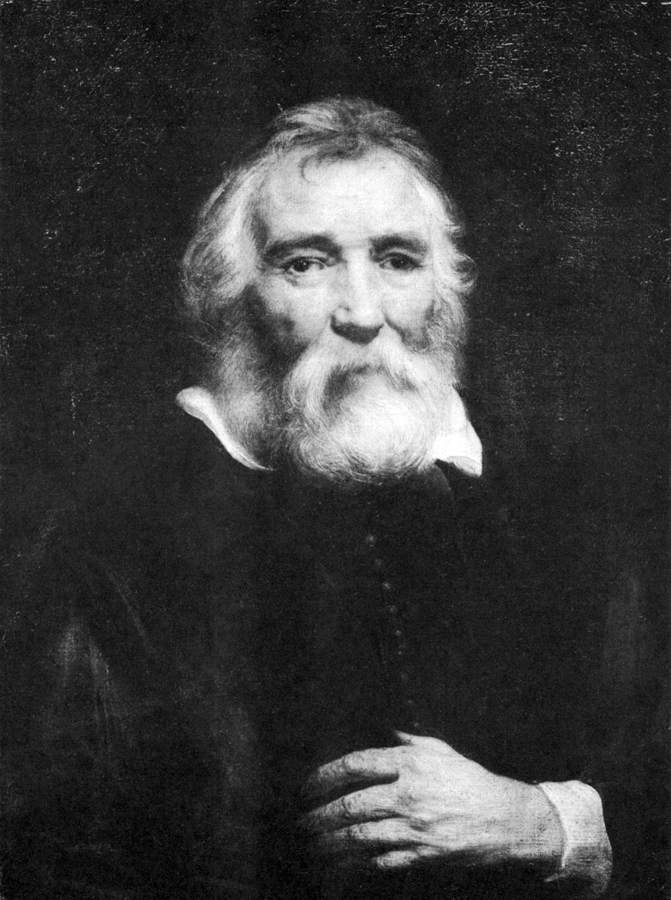 'Portrait of Adam van Noort', by Jacob Jordaens, ca. 1640. The painting was destroyed or disappeared in Berlin in May 1945, in the Friedrichshain flak tower fire. - Oil on canvas - Dimensions: 75 x 56 cm